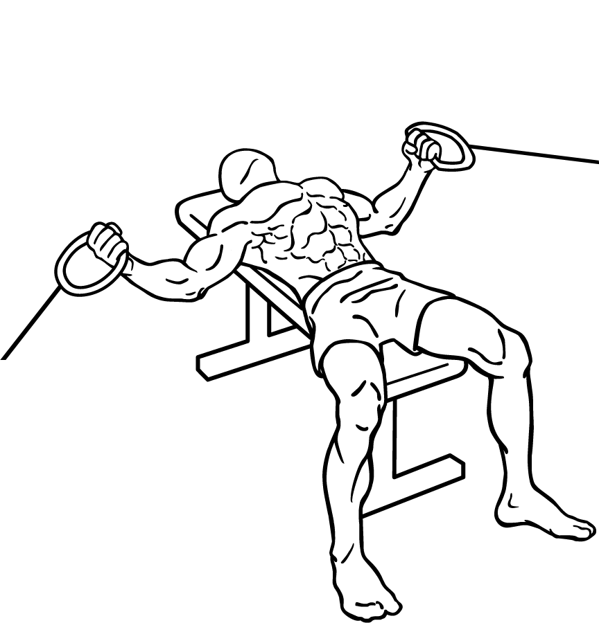 an exercise of chest